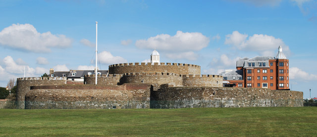 Deal Castle, Deal, Kent